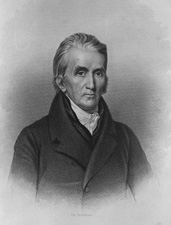 Image of James Hillhouse taken from the US Congress Biographical Directory (